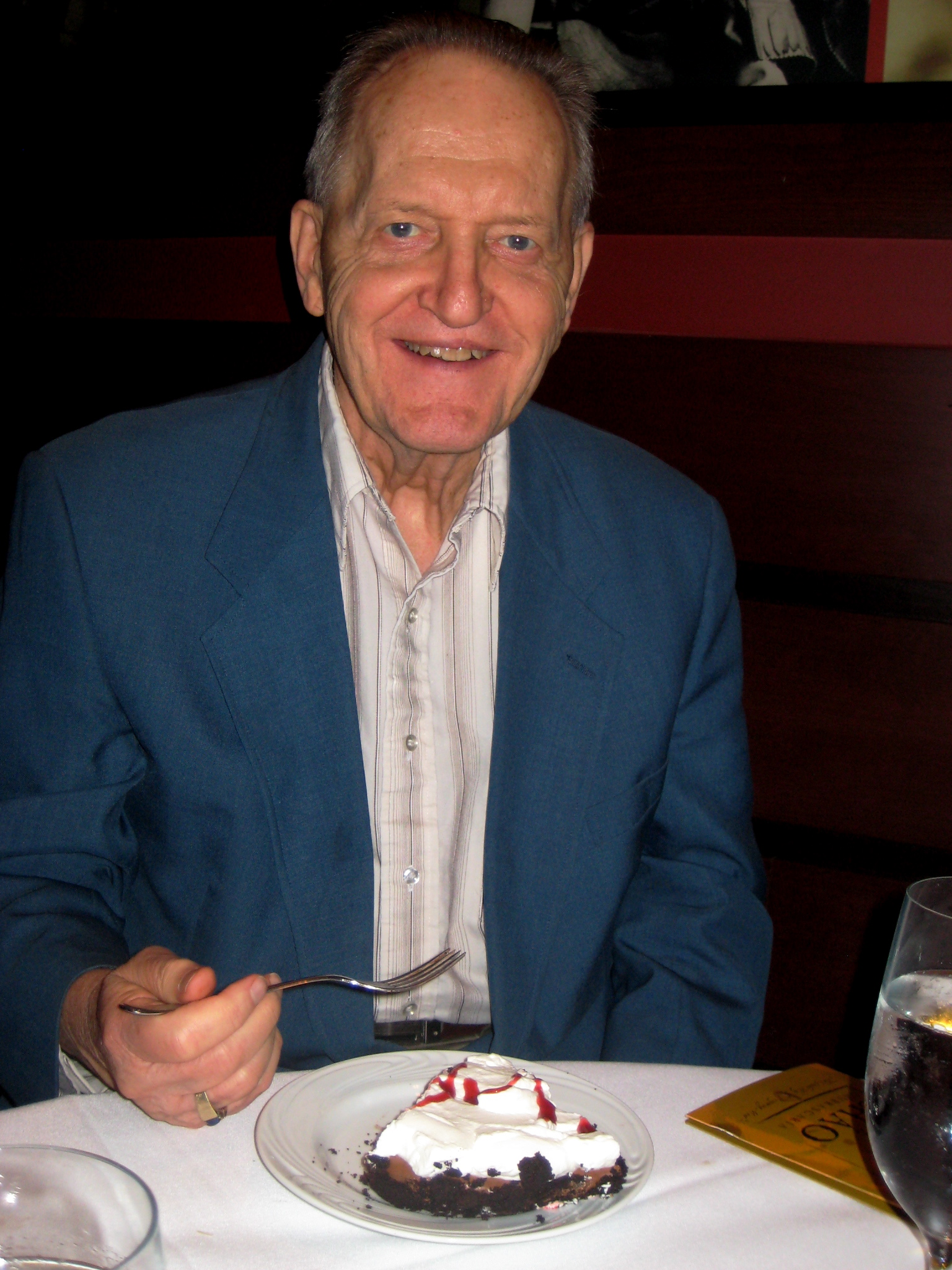 Albert Overhauser enjoying his favorite dessert of Chocolate Mousse Pie.